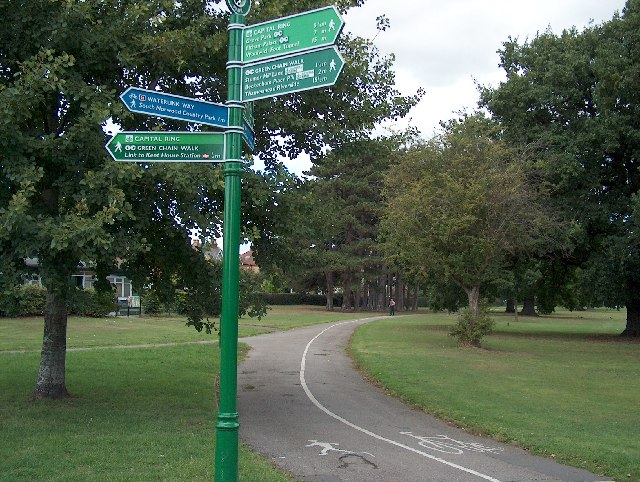 Footpaths across Cator Park, Beckenham. The sign shows that 3 long distance footpaths are together here; the Capital Ring, Green Chain Walk and Waterlink Way.